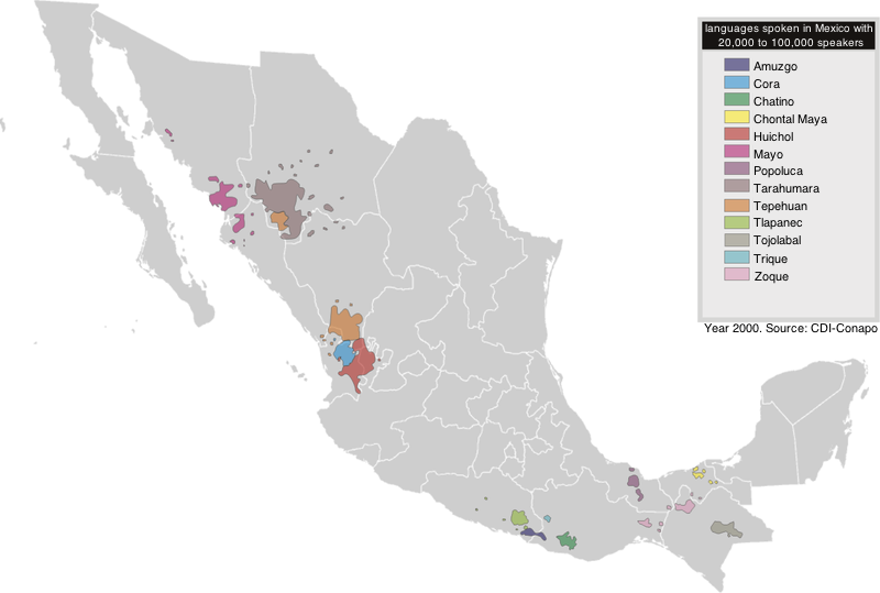 This is an English translation of a map that originally had Spanish labels. It shows the indigenous languages of Mexico that have between 20,000 to 100,000 speakers.